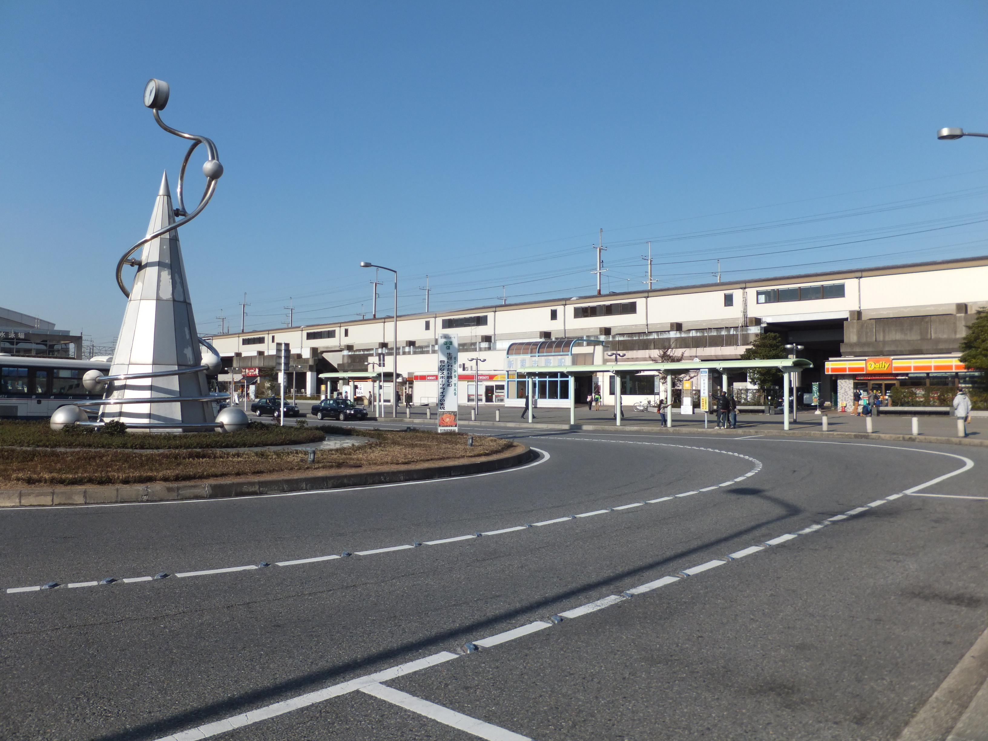 Shin-Narashino Station on the Keiyo Line, Narashino, Chiba, Japan